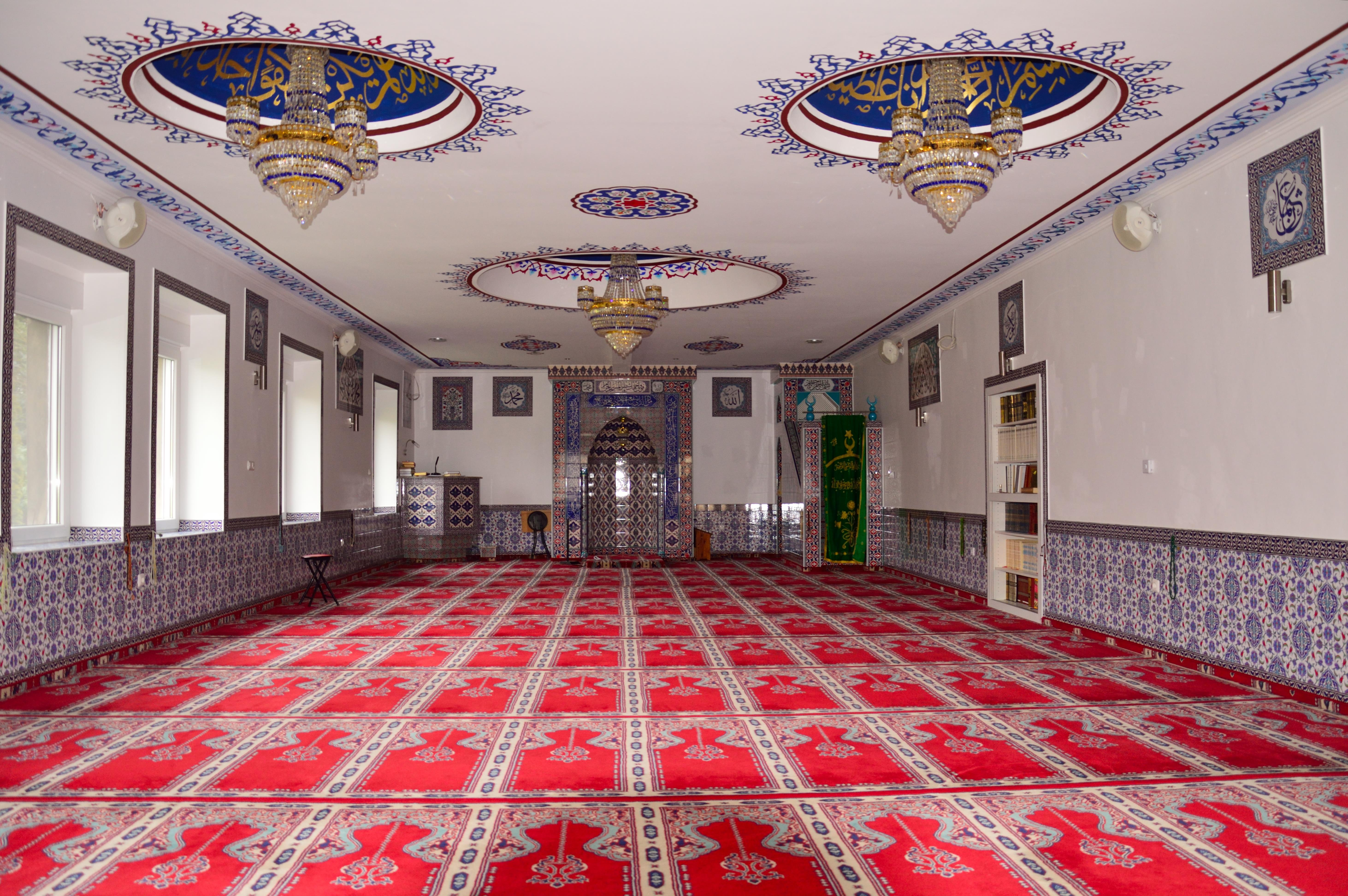 Fatih Camii mosque in Witten-Herbede